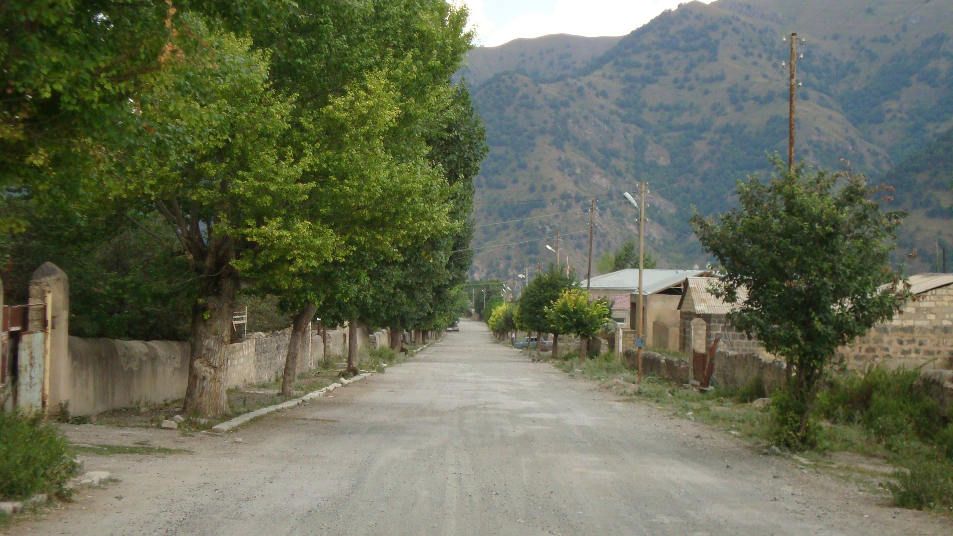 Central street of Karvachar, Republic of Mountainous Karabakh (Artsakh).